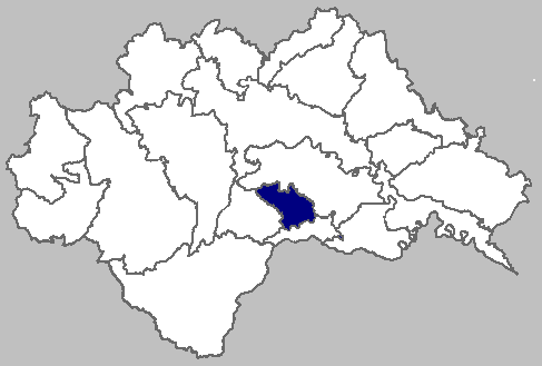 Self-made map of Majur municipality within Sisak-Moslavina County.